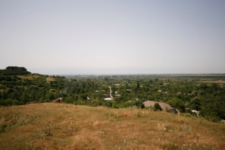 Satikar, South Ossetia